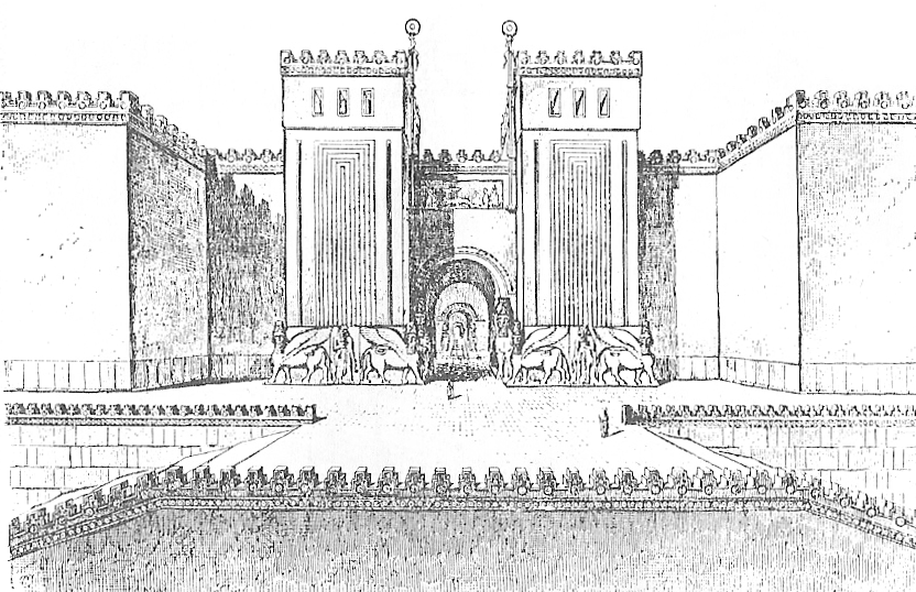 Gates of Palace of Sargon II in Dur-Sharrukin (reconstruction).